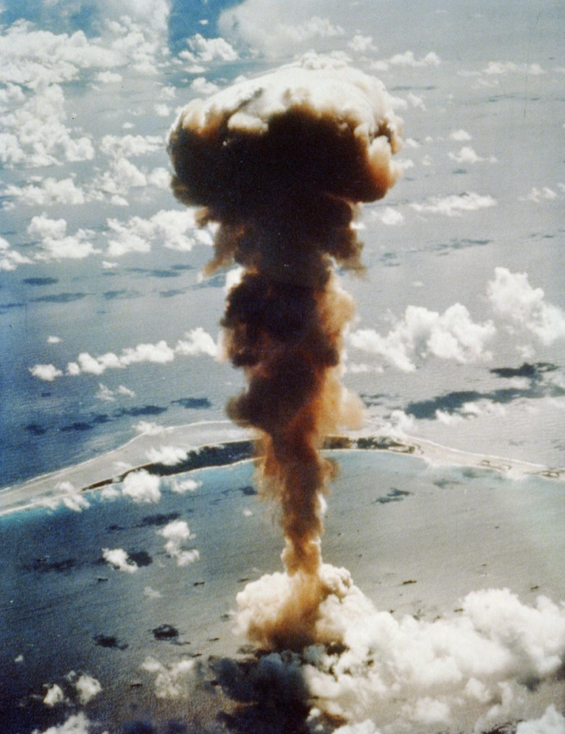 Archival TIFF scan of color photograph of Operation Crossroads explosion. Aerial view of mushroom cloud from atomic bomb Able, Bikini Atoll in the Pacific.